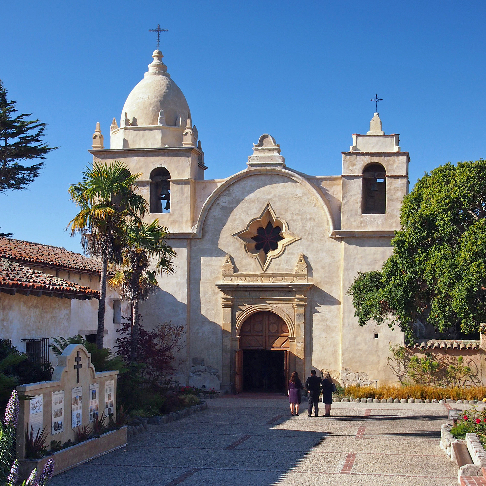 Church, Mission San Carlos Borromeo de Carmelo, Carmel-by-the-Sea, California, USA. Viewed from the northeast.